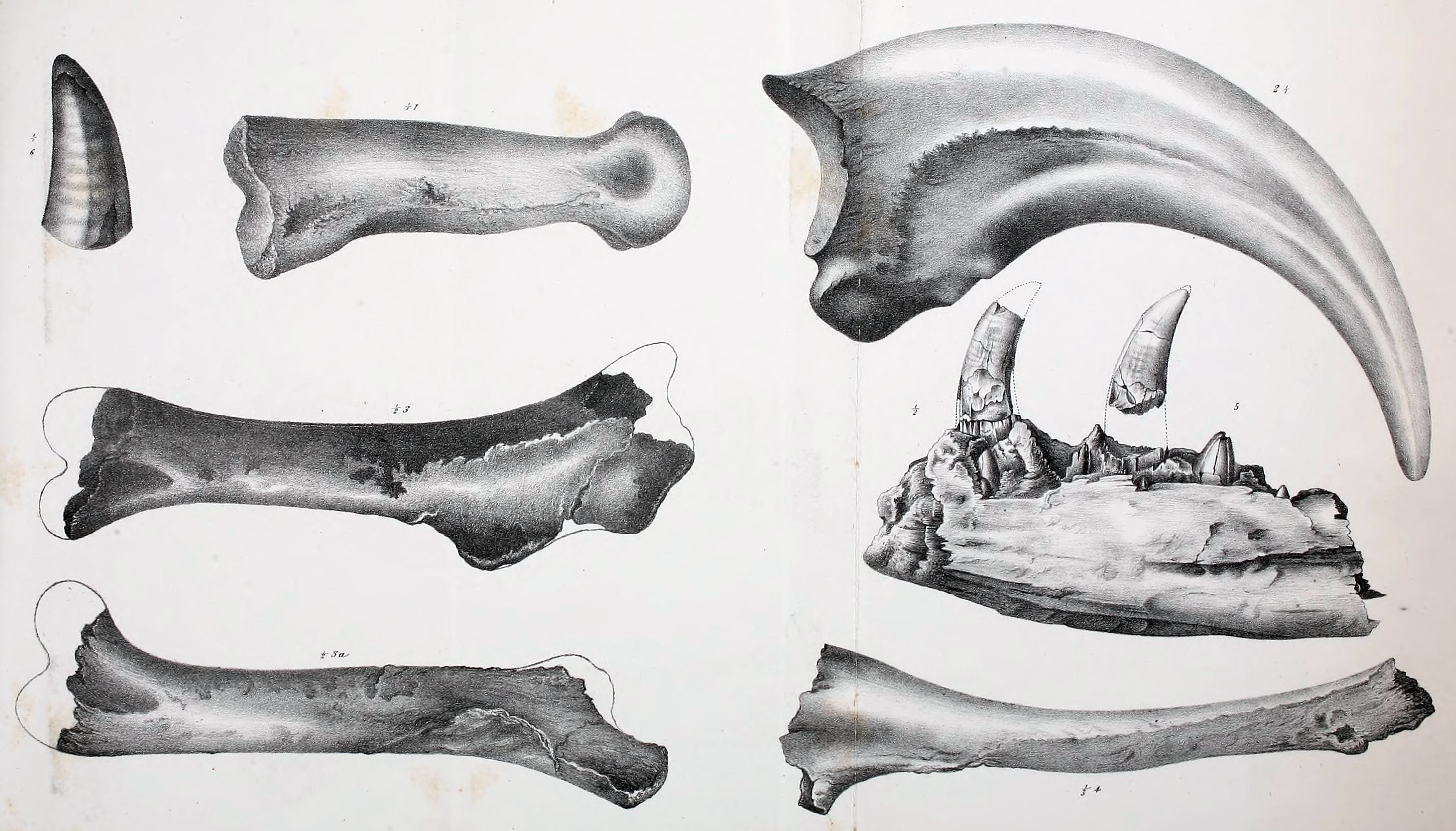 Fossil remains of Dryptosaurus/Laelaps.